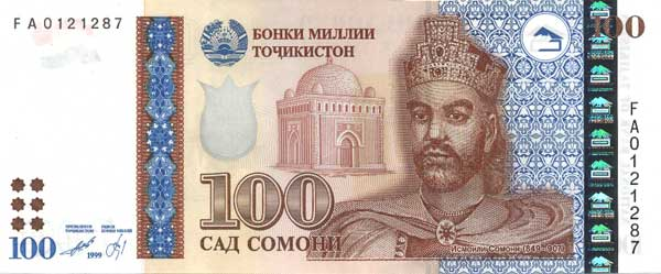 100 Somoni Тоҷикӣ: 100 сомонии тоҷикистонӣ (тоҷикӣ), соли 1999